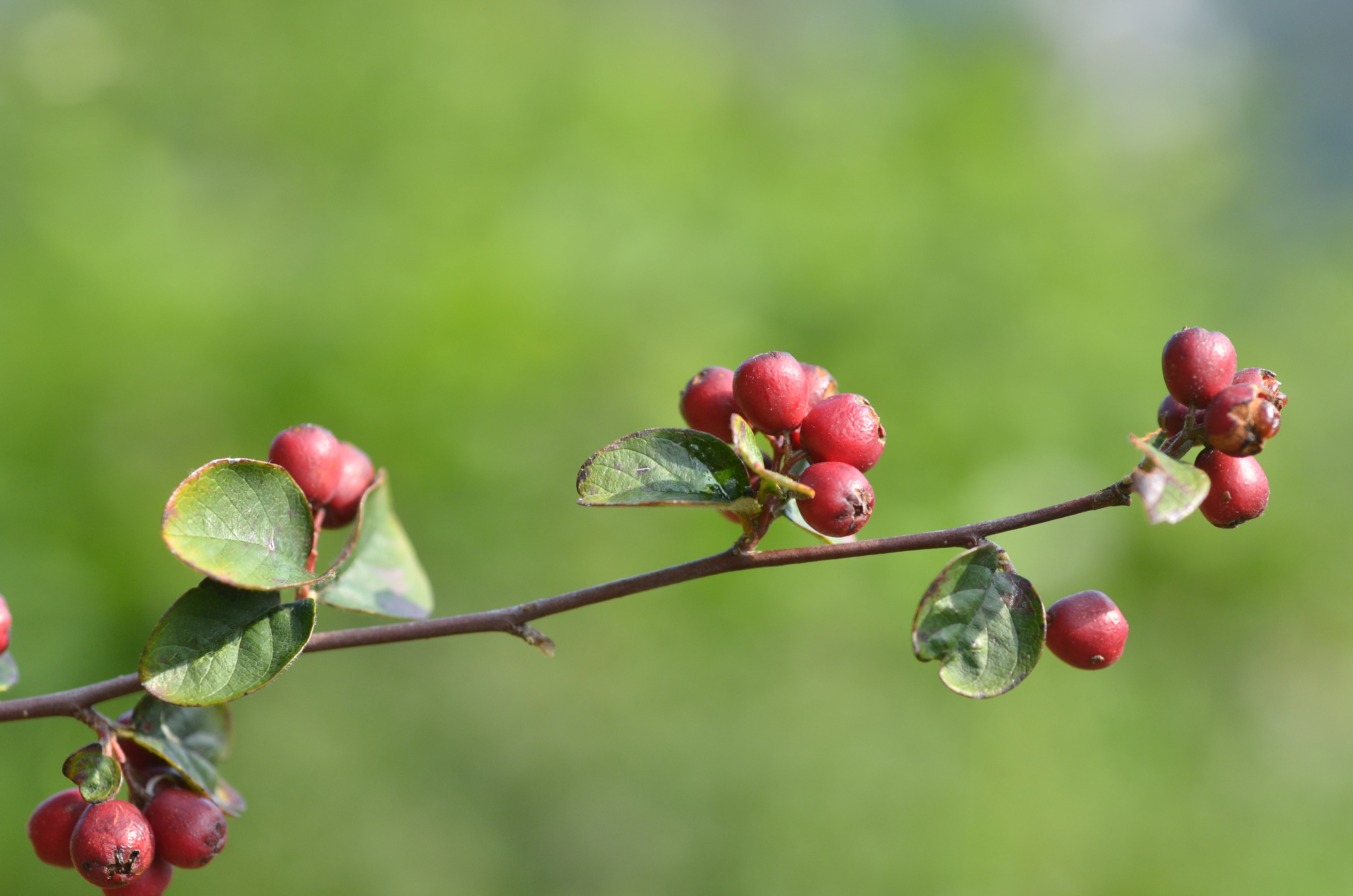 Cotoneaster integerrimus Location : Belgium, Dave, Rochers de Niéveau